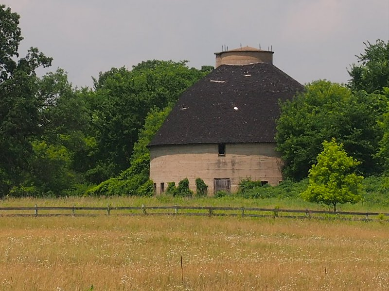 One of the Cota Round Barns, Duelm, Minnesota, USA